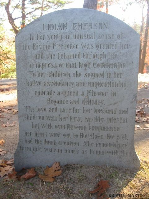 Reverse of gravestone of Lidian Jackson Emerson, Sleepy Hollow Cemetery, Concord, MA